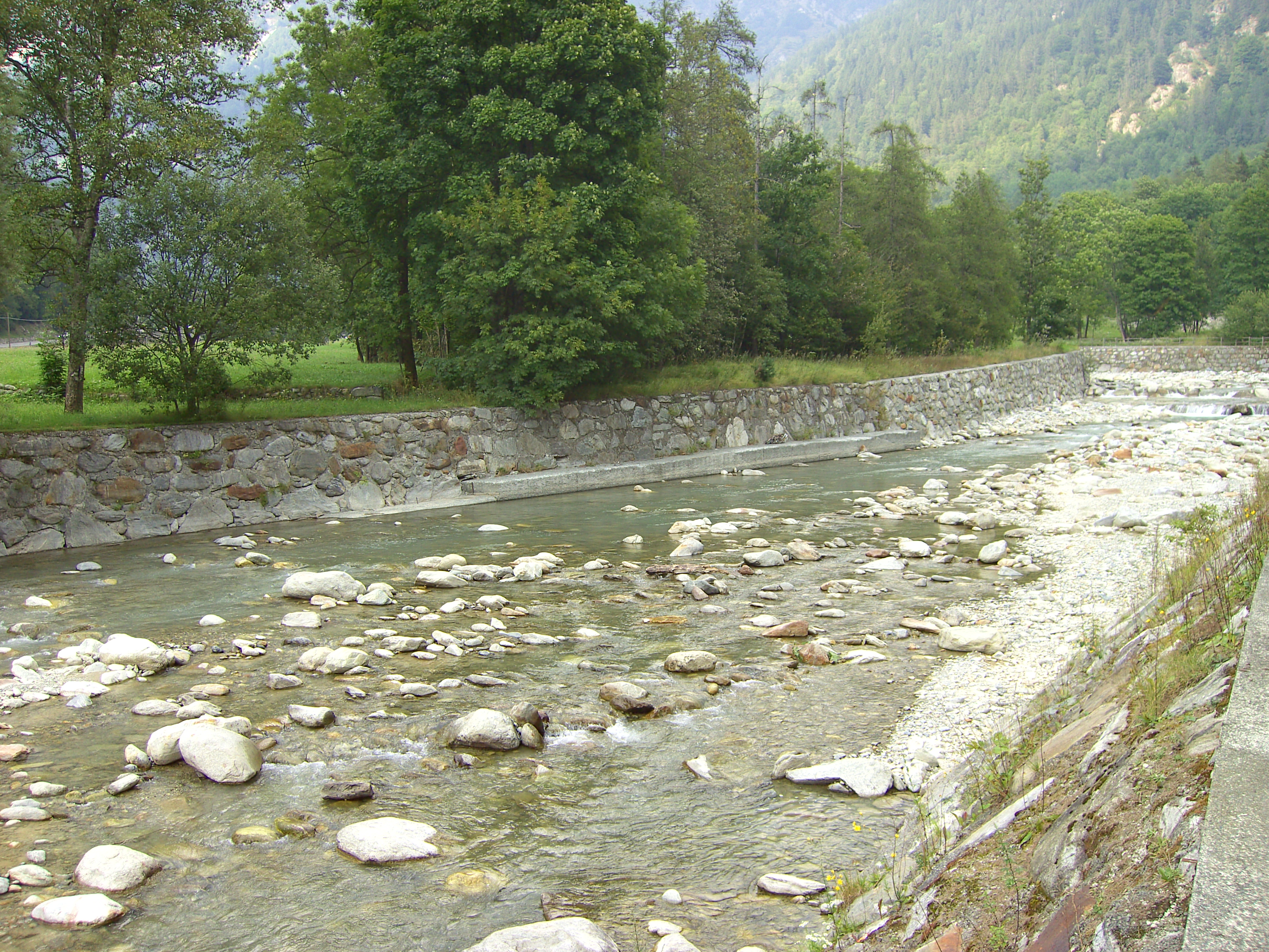 The torrente Lys near Gaby, Aosta Valley, Italy.